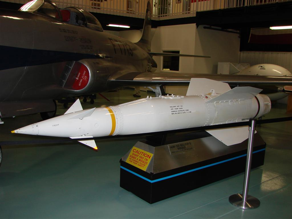 AGM-12D Bullpup B Missile. Air Force Armament Museum, Eglin Air Force Base, Florida. November 9, 2006.